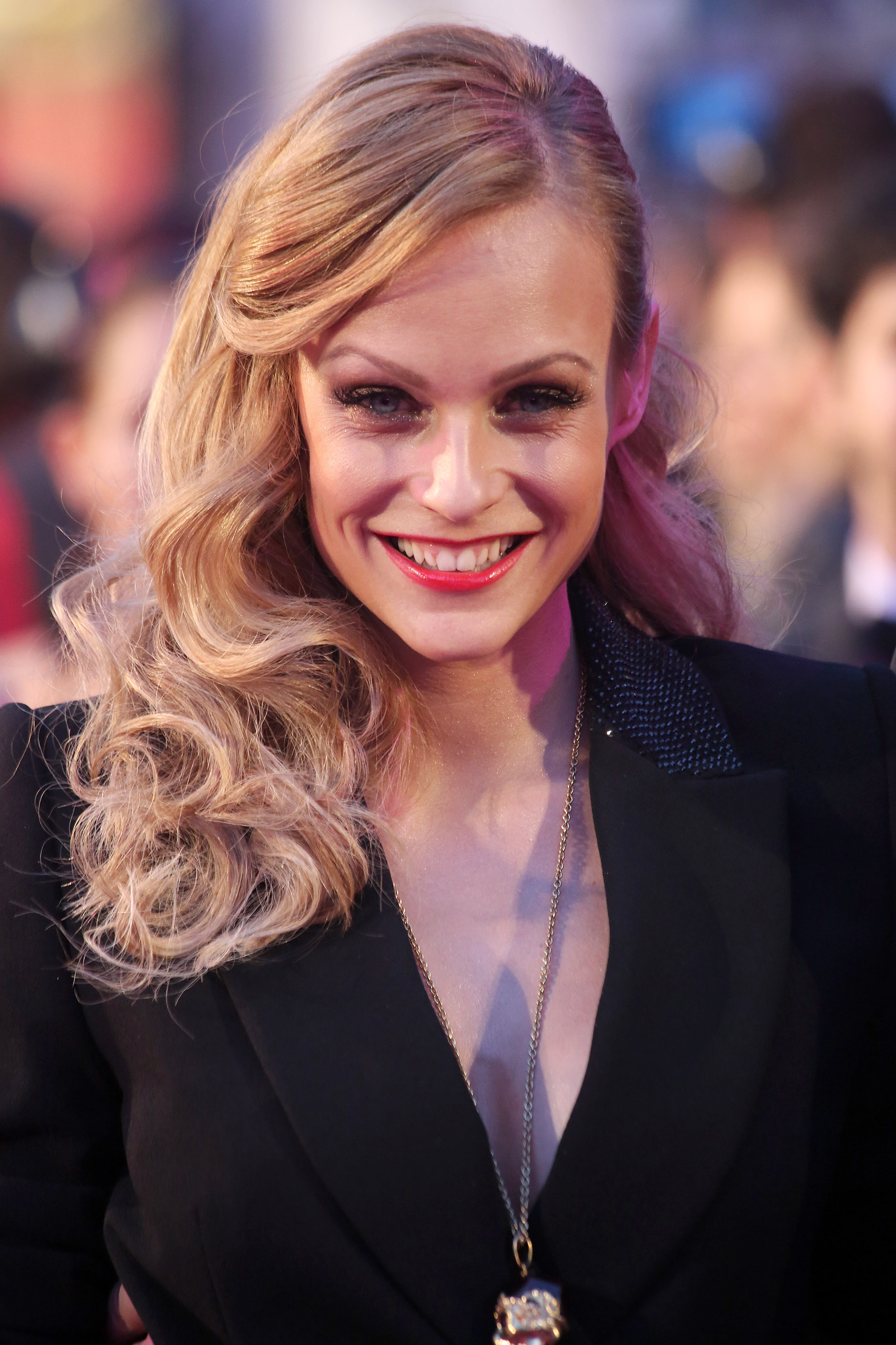 Mirjam Weichselbraun on the 'magenta carpet' at Life Ball 2013 at the square in front of the city hall of Vienna, Vienna, Austria.